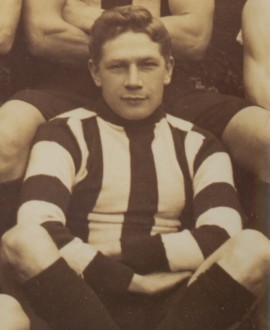 Photograph of Charlie Laxton in 1914